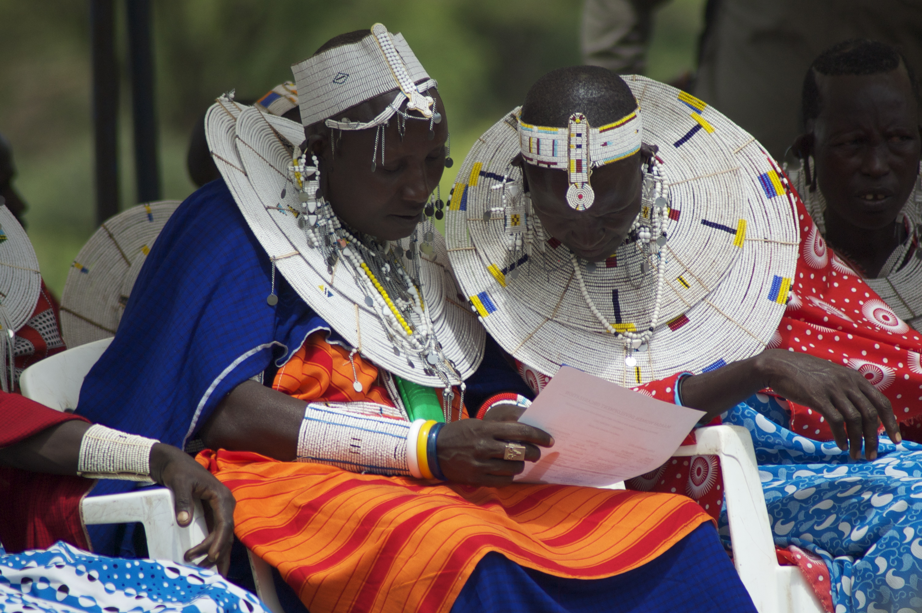 In Tanzania, USAID's Empowerment through Literacy Education Access Project (E-LEAP) helps adult Maasai women learn basic Swahili literacy skills, which allows them to have greater access to essential skills. Currently funded through our Education Sector, led by Tom LeBlanc, this program partners with Mwedo (Maasai women development organization) and began in 2007 with 150 Maasai women. Currently, USAID's program has empowered over 2000 Maasai women. The program extends beyond basic Swahili literacy skills and trains the women in business skills, HIV education, and land rights. Photo Credit: Megan Johnson/USAID.